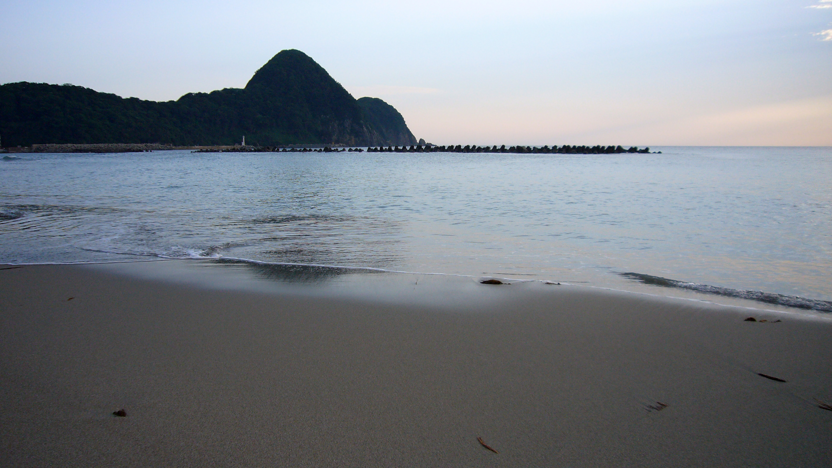 Takeno Beach and the Nekozaki Peninsula in Toyooka, Hyogo, Japan